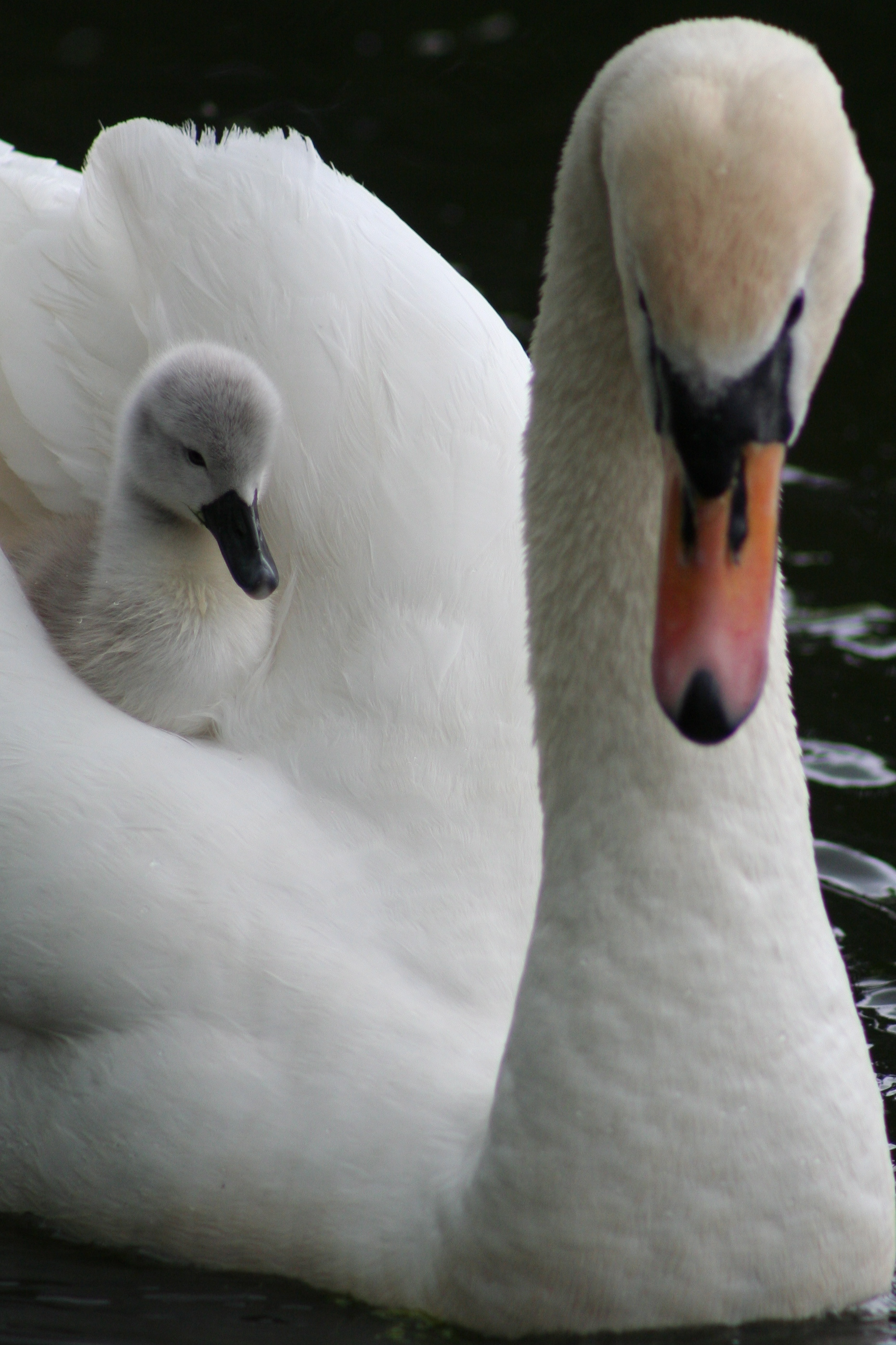 The pond at Tweedbank, Galashiels, Sunday 17 June 2007.